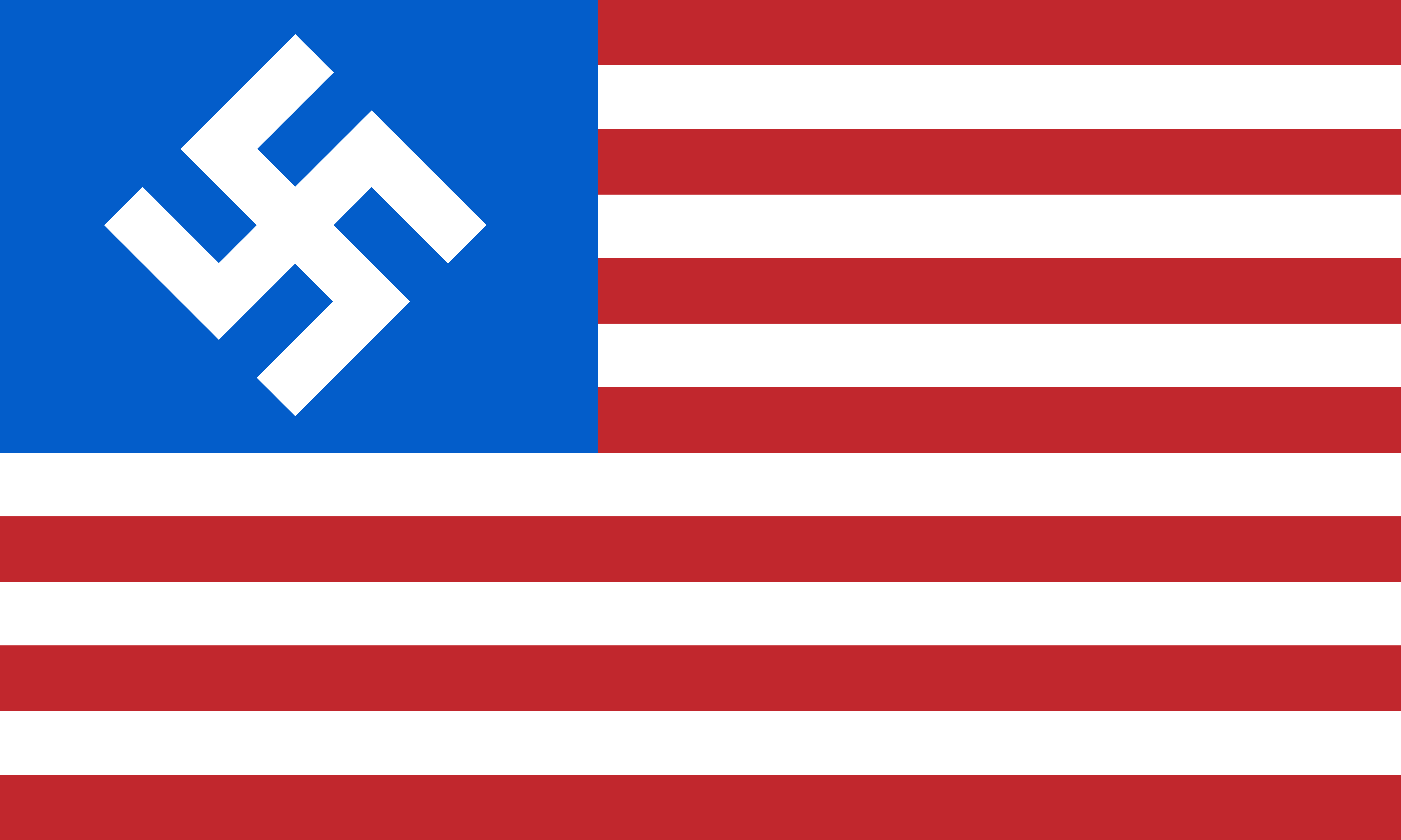 Flag used in the TV series The Man in the High Castle as the flag of the Axis Powers of America.